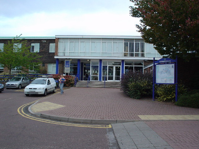 George Elliot Building, Nottingham Trent University, Clifton Campus. Many of the buildings are named after significant people.